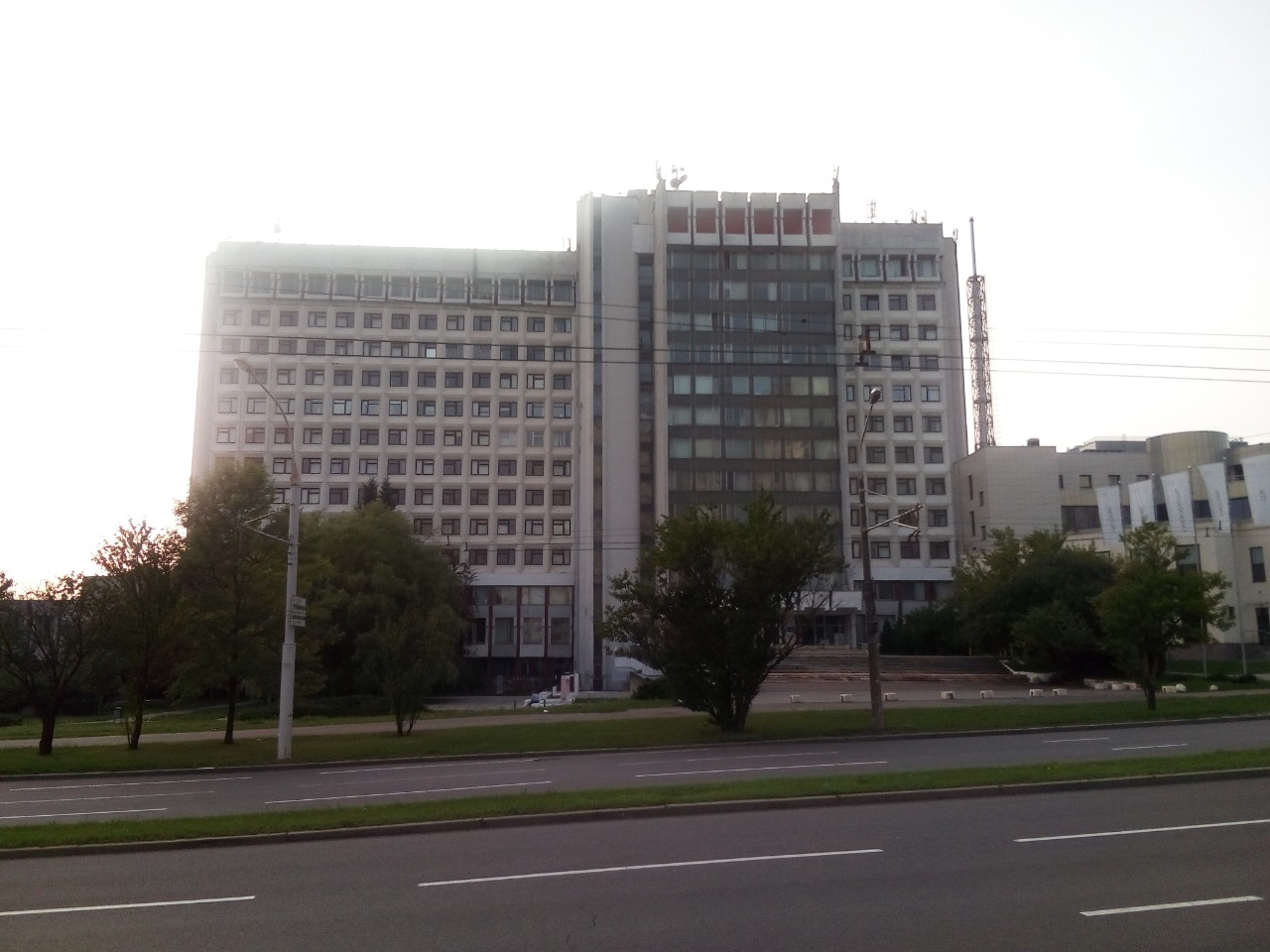 Headquaters of Computer Research Institute (155 Bahdanoviča Street, Minsk, Belarus; 28th of July, 2019)